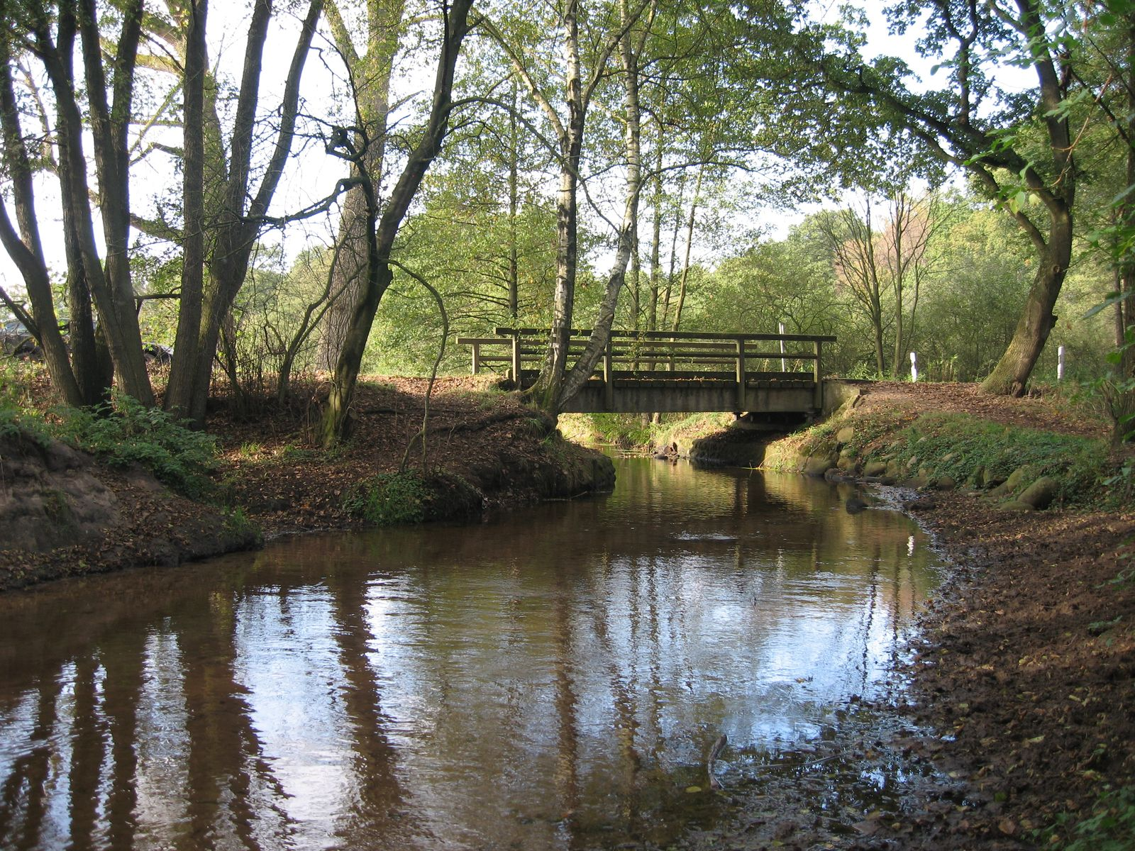 Wümme river in nature reserve Obere Wümmeniederung